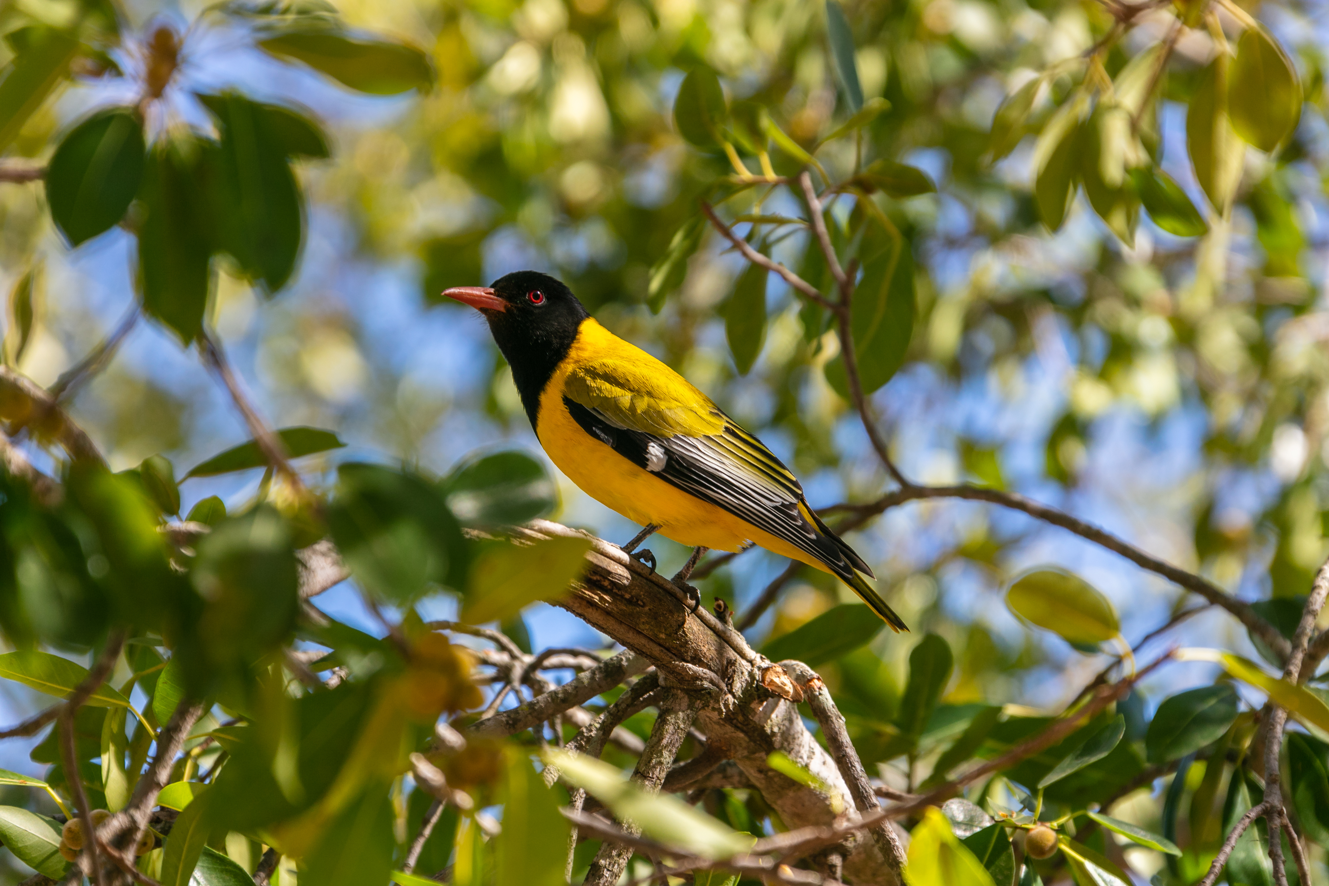 Black-headed oriole (Oriolus larvatus), Kruger National Park, South Africa